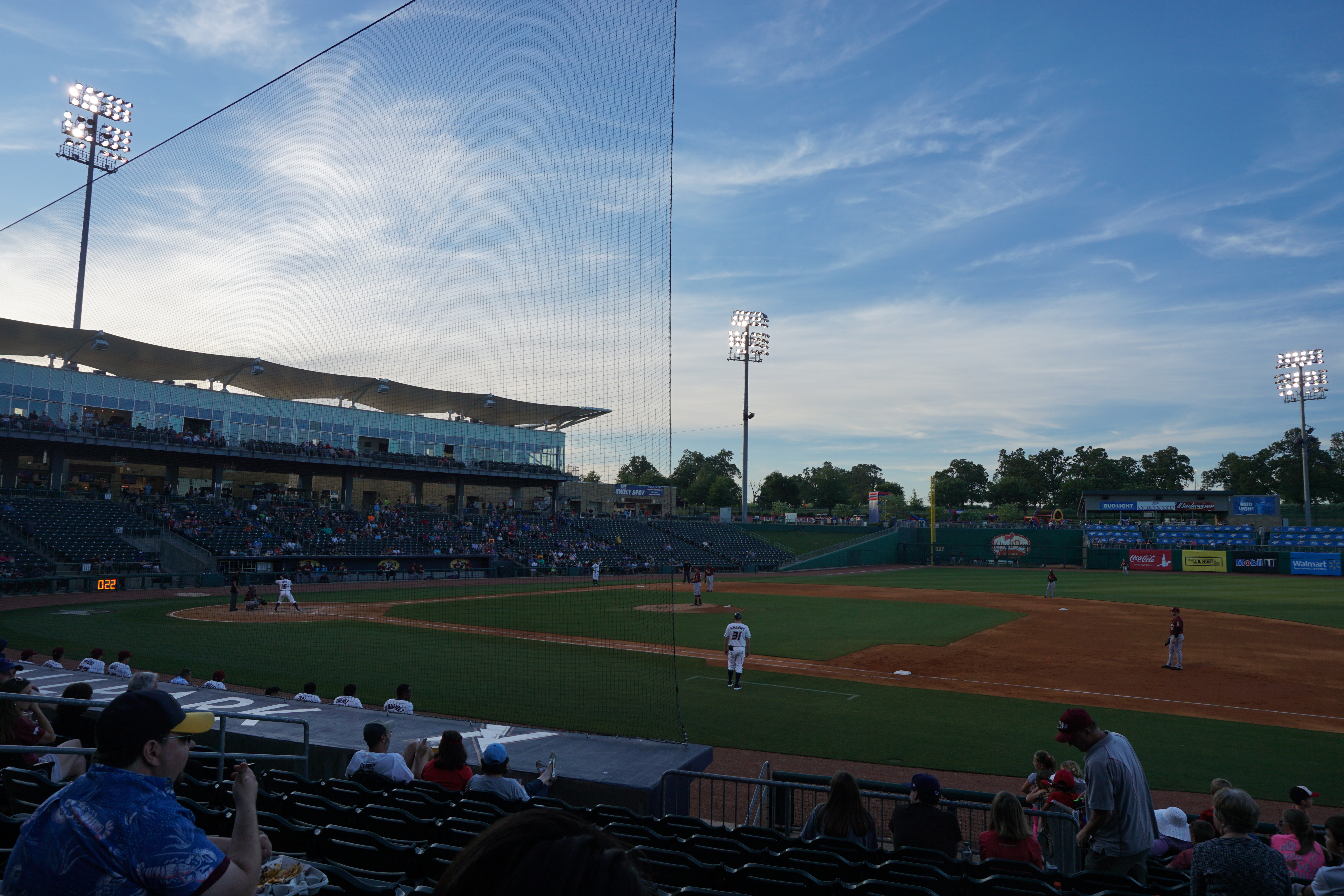 In-game action during the Frisco RoughRiders vs. Northwest Arkansas Naturals baseball game at Arvest Ballpark in Springdale, Arkansas (United States). Frisco won 5–3.